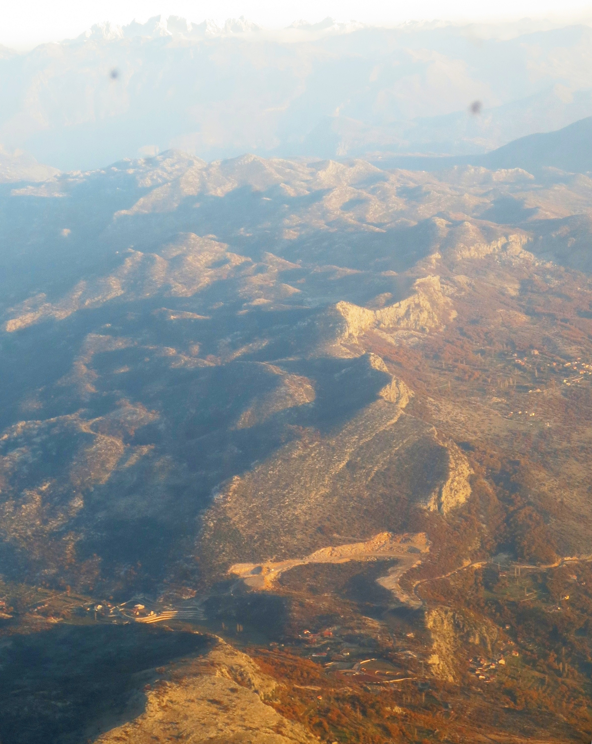 Image from the mountaineous area around villages Medun and Vrbica, southeast of Podgorica city, Montenegro.